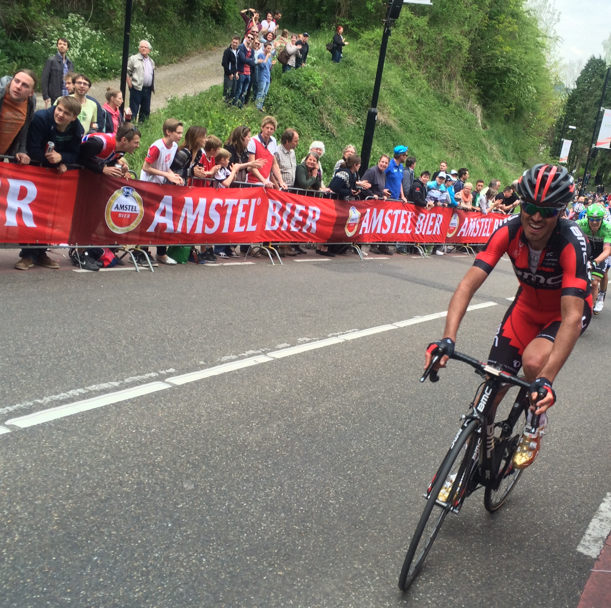 Samuel Sanchez climbing Cauberg in the finale of Amstel Gold Race 2014